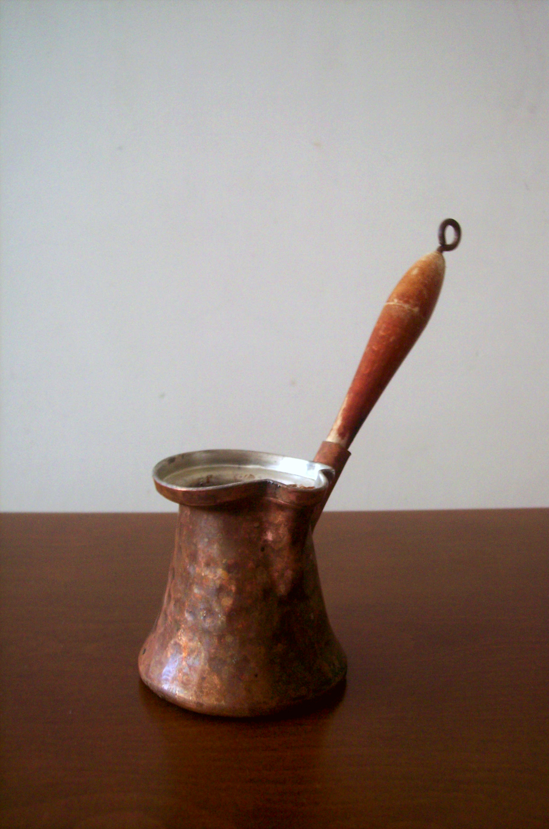 A copper Turkish coffee pot.